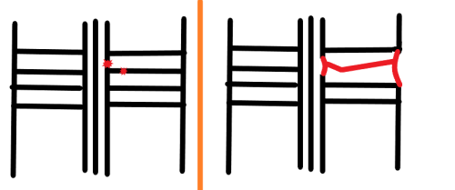 WTC structure damage diagram - theory.